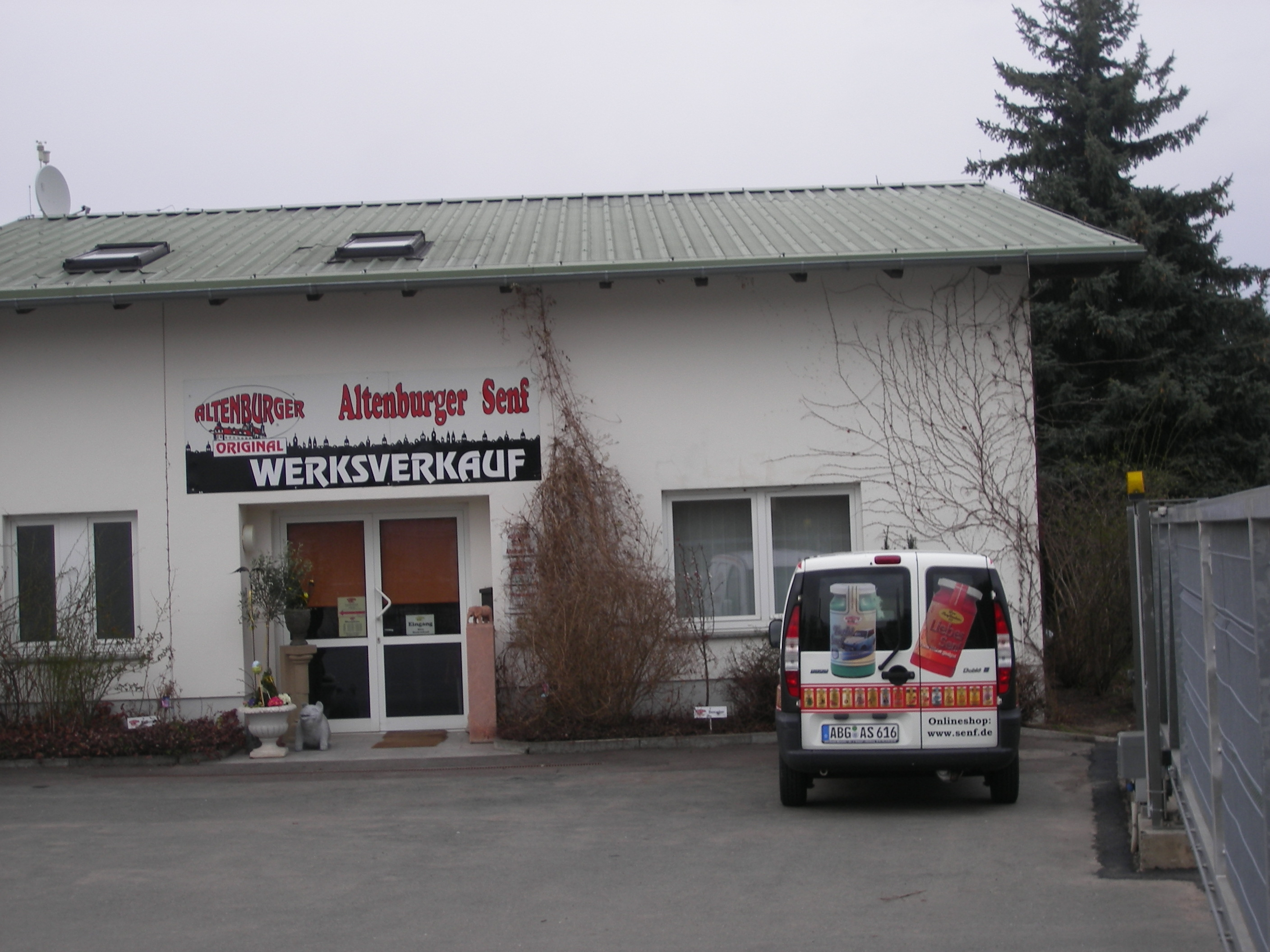 The mustard factory in Altenburg, Thuringia, Germany.